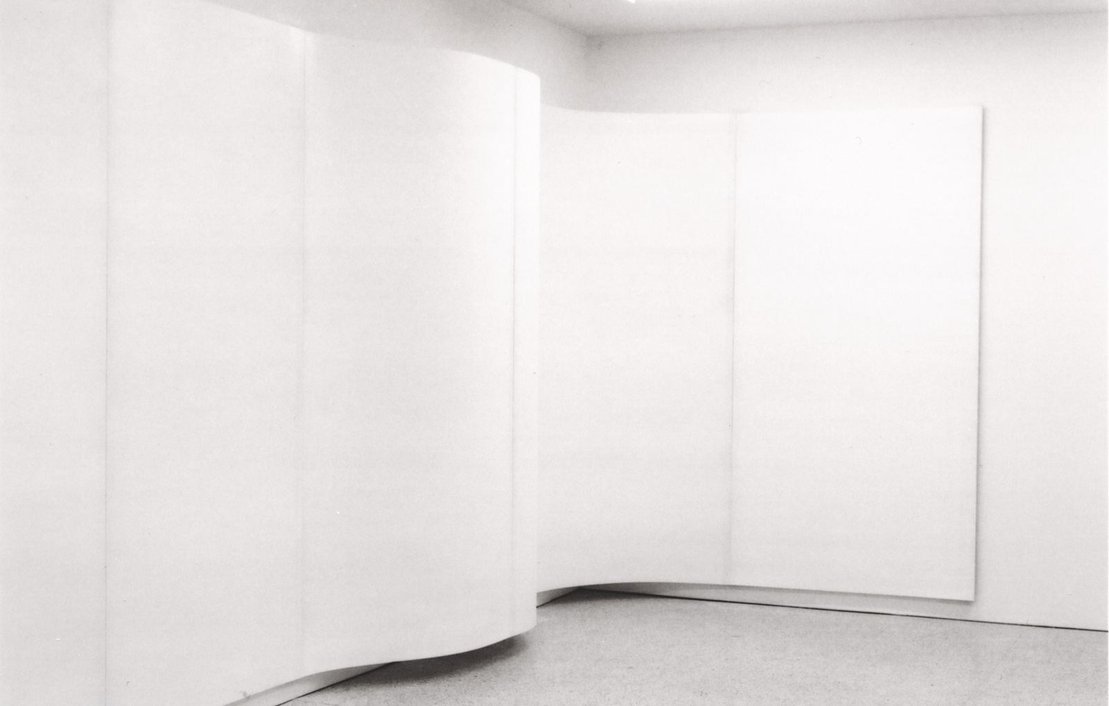 Wall Ride Installation at Mark PAsek Gallery lower East side New York 2001 Simon Aldridge